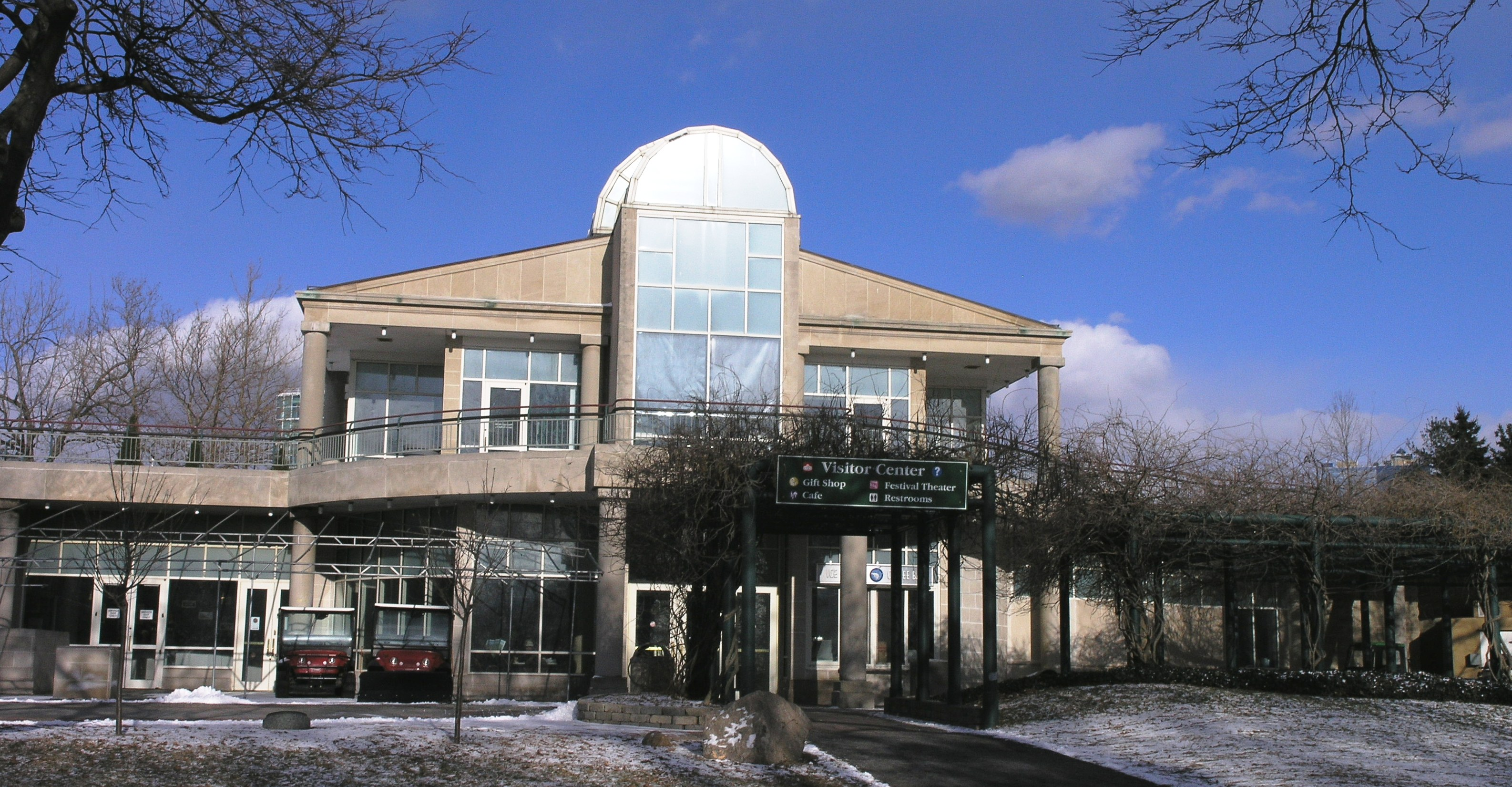 Taken by Daniel Mayer in late February 2006.